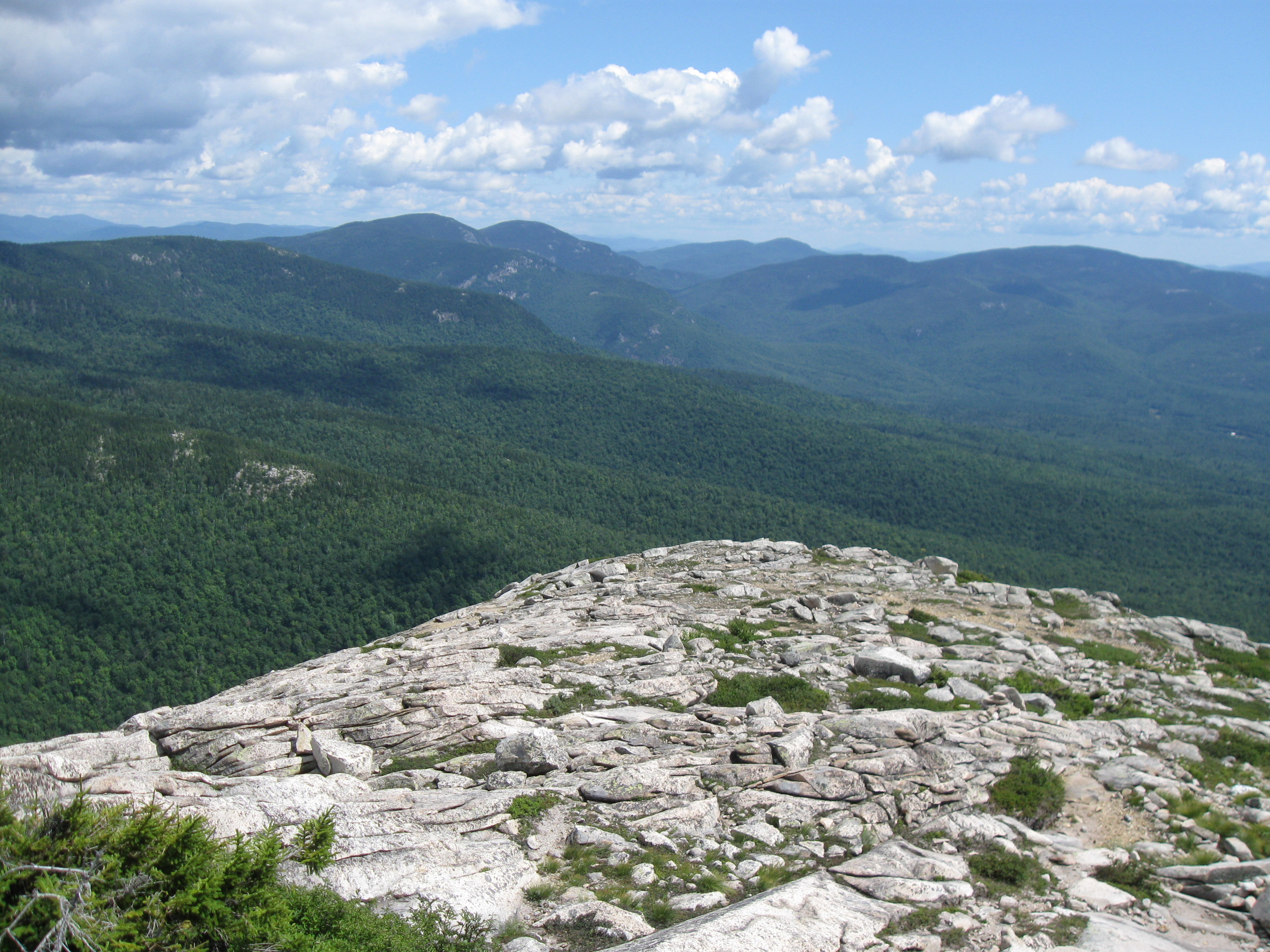 Mountains of the Baldface-Royce Range in the White Mountains (New Hampshire). West Royce Mountain (left) and East Royce Mountain (right) are the twin peaks left of center in the distance. Photo taken from South Baldface.